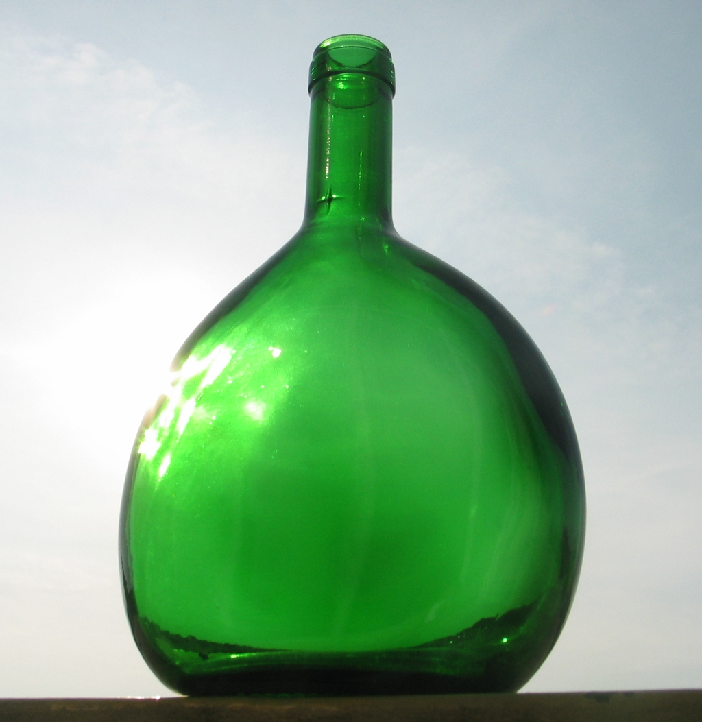 a Bocksbeutel style Bottle